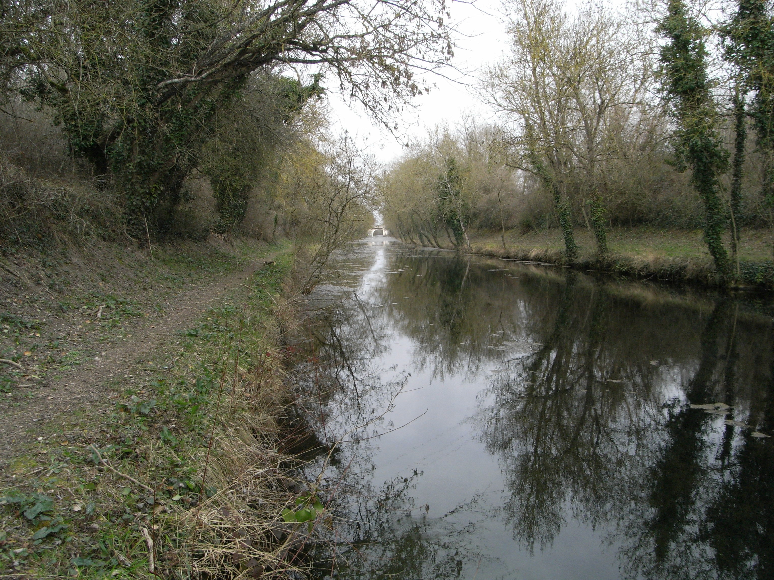 French canal to La Rochelle at Marans in Charente-Maritime (17) - Bridge Moullepieds